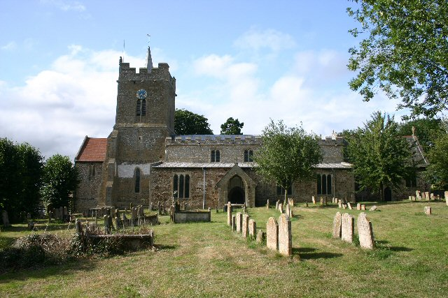 Lakenheath Church. Dedicated to St Mary the Virgin, this church is one of the most interesting in Suffolk, with a Norman font, angel roof and several wall paintings.